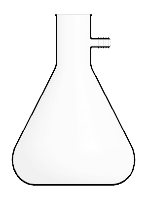 Buchner Flask drawing H Padleckas created this image in September-October 2006 especially for use in articles on flasks in Wikimedia. H Padleckas 17:53, 3 November 2006 (UTC)